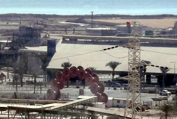 Dead Sea Works